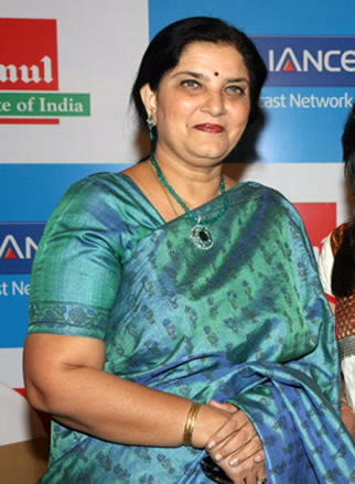 Preeti Sagar at Sunidhi Chauhan unveils first look of Amul's 'Mero Gaam Kathapare's music video